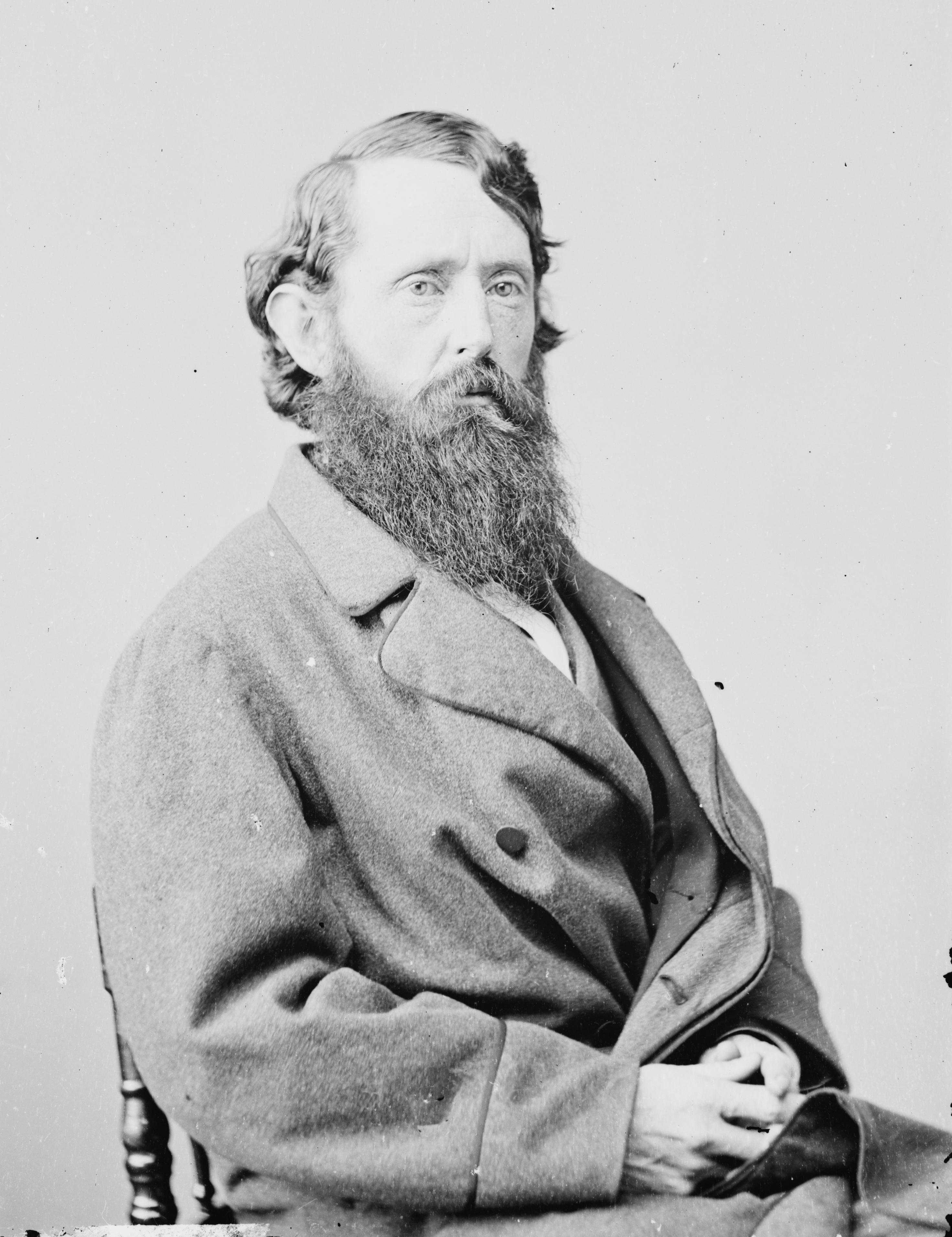 B. Gratz Brown. Library of Congress description: "Hon. Benj. G. Brown, MO."